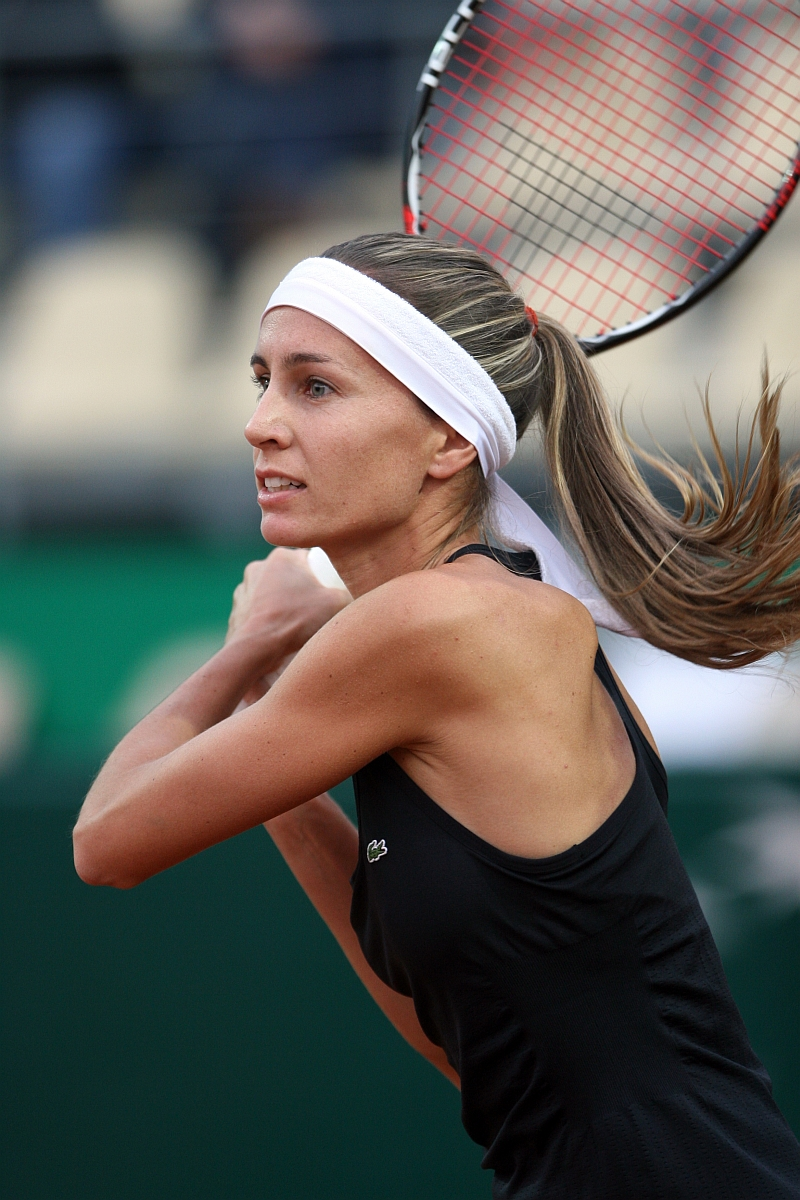 Gisela Dulko Rome 2009